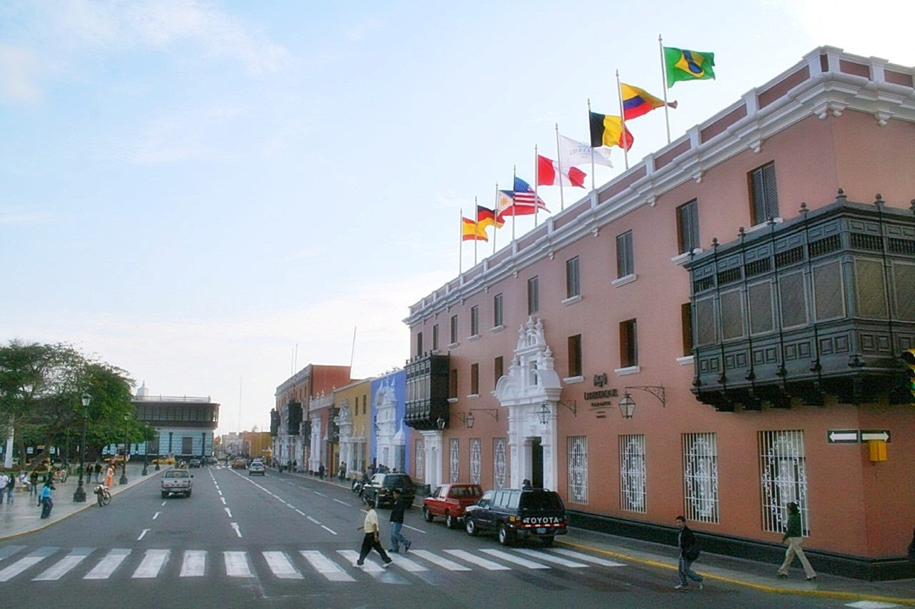 Independencia Plaza Armas de Trujillo